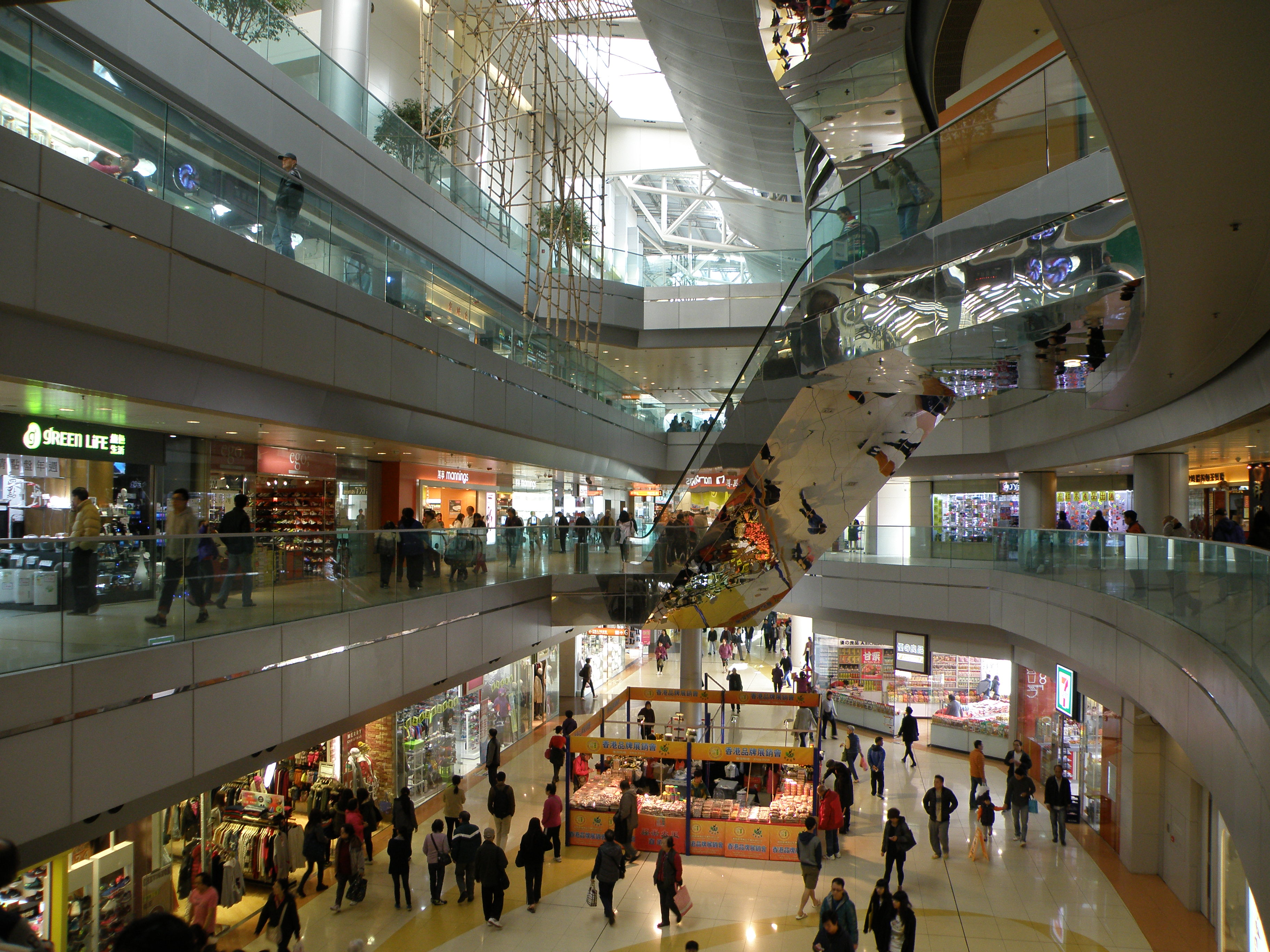 Sau Mau Ping Shopping Centre in Sau Mau Ping, Hong Kong.